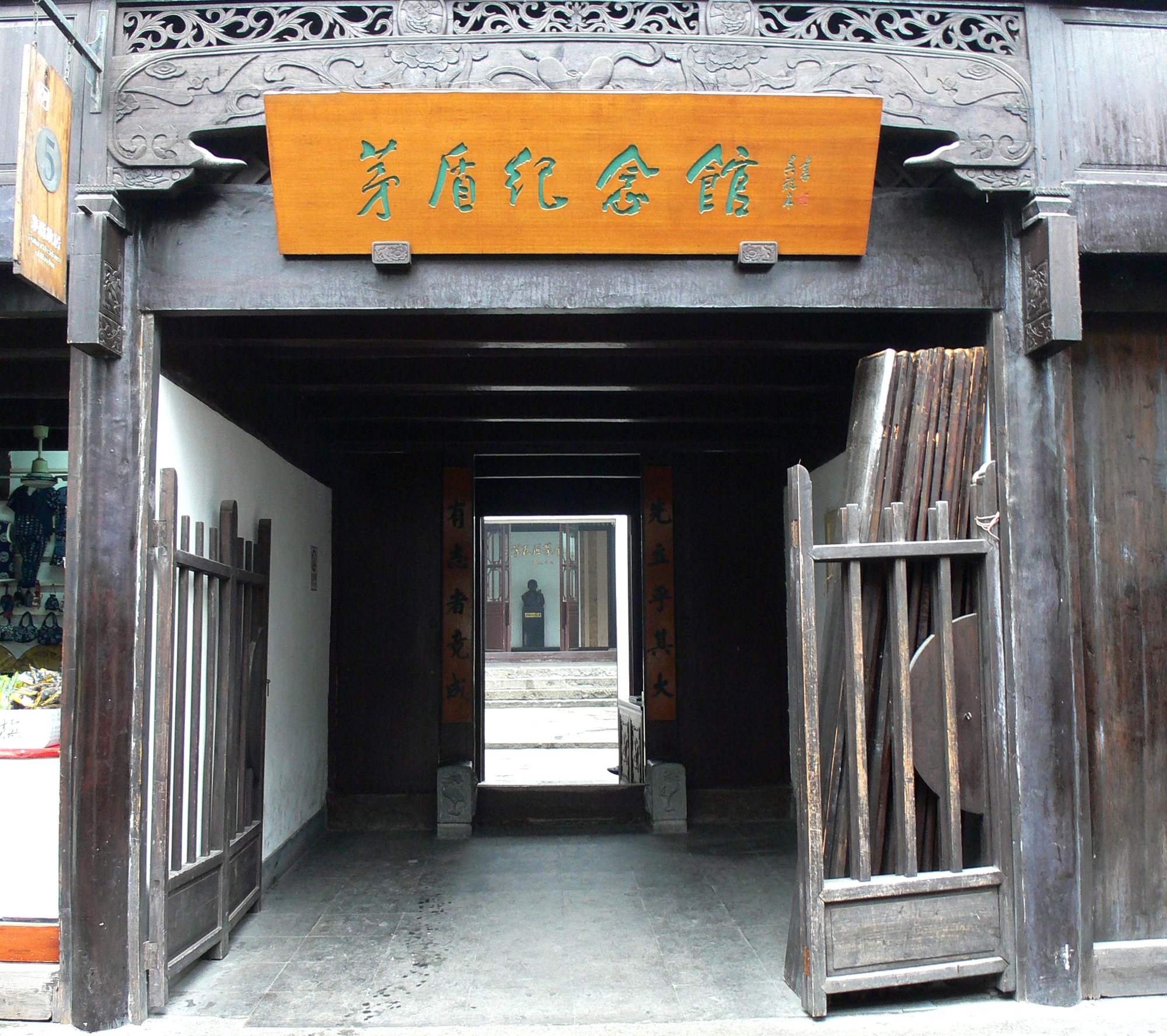 Former residence of Mao Dun doubled as Mao Dun Memorial in Wuzhen